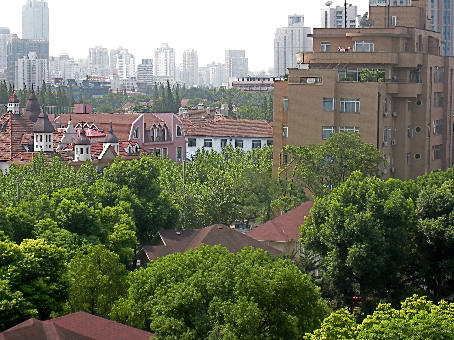 French Concession area, Shanghai, near the former Avenue Joffre. The gabled building on the left is the former Belgian consulate, while the taller buildings on the right are the 1930s Henry Apartments and Gascogne Apartments